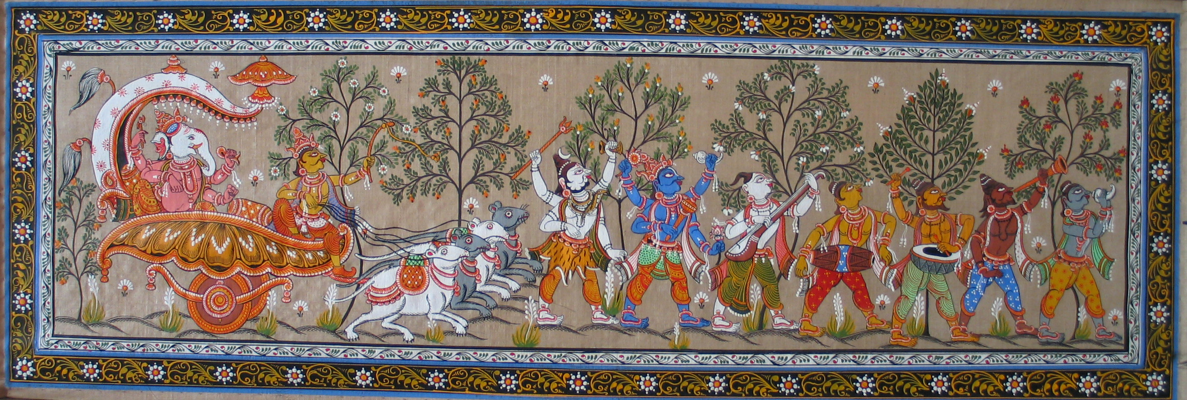 Peinture Patta Chitra - Patta Chitra Painting, showing Ganesha and Shiva